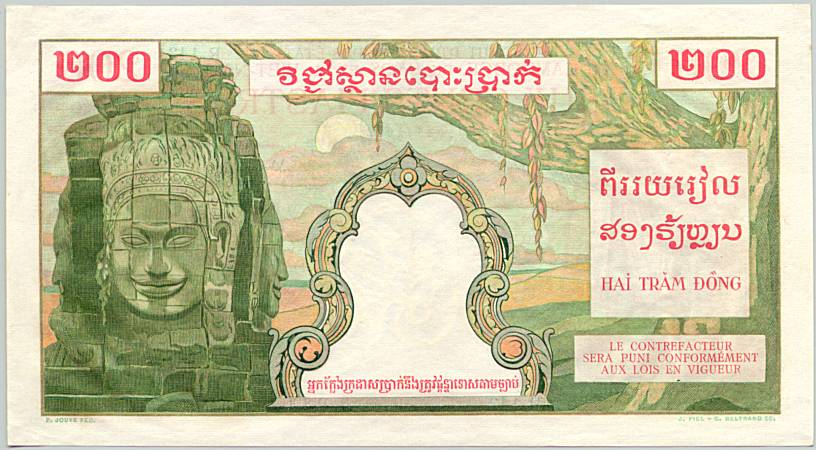 200 French Indochina piastres 1954